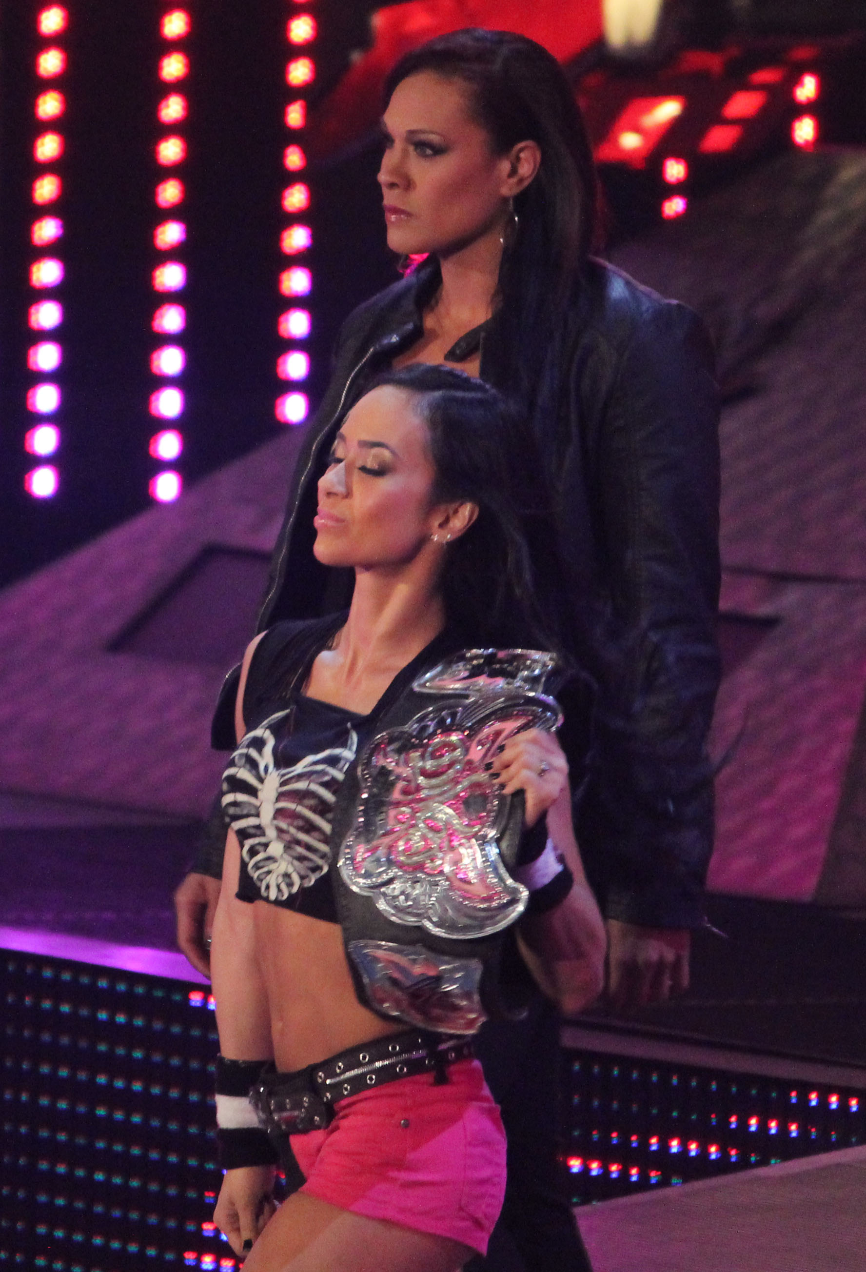 AJ Lee and Tamina during a WWE Raw event on April 7, 2014. Cropped from the original.